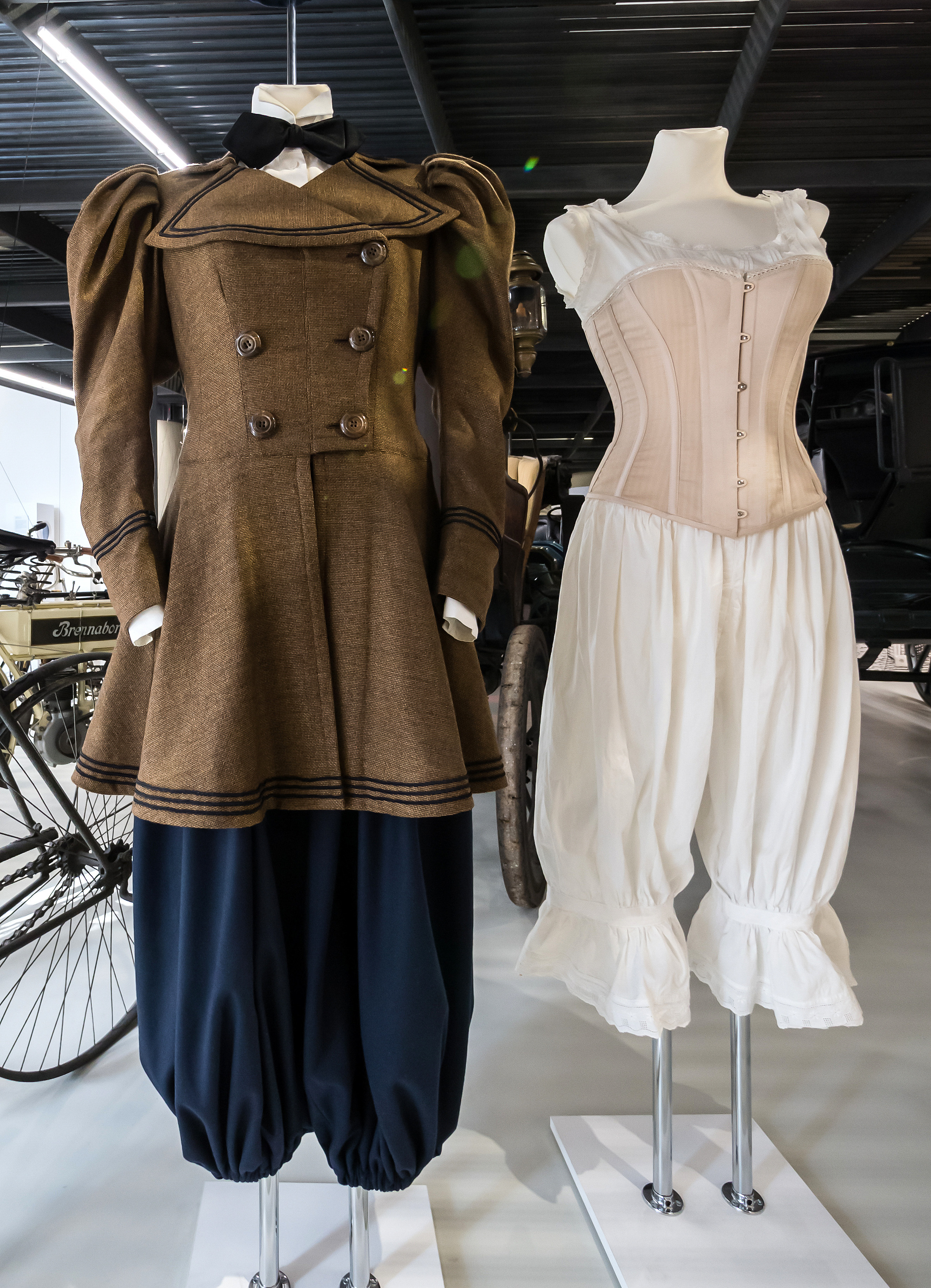 Cycling jacket & bloomers and pair of combinatioms with corset, German, c.1895